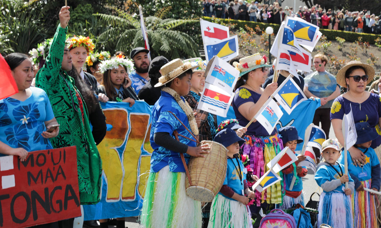 Climate Strike New Zealand Parliament Wellington